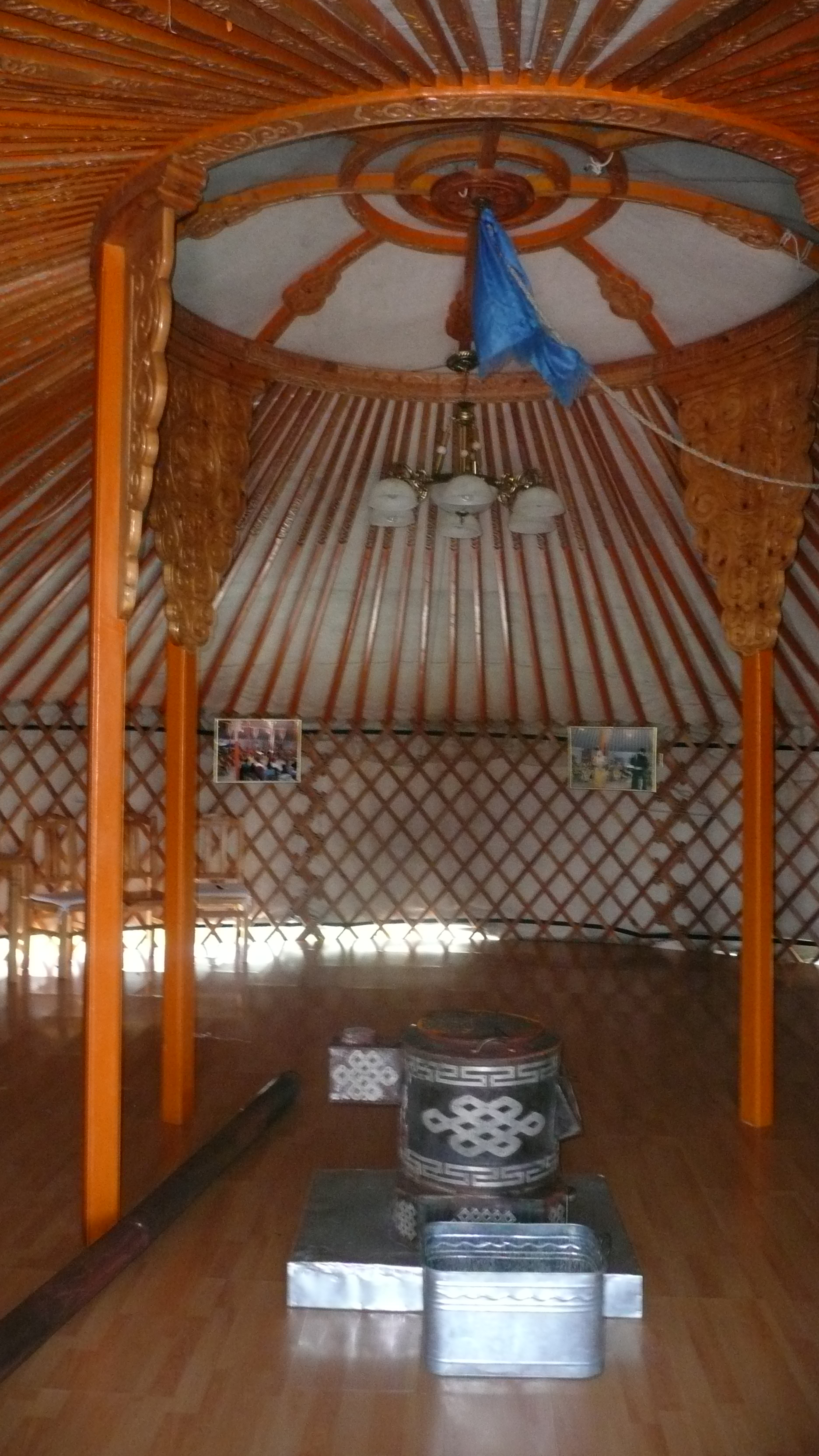 Hearth of a Mongolian yurt